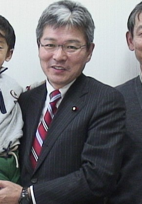 Seiji Ohsaka.Japanese politician